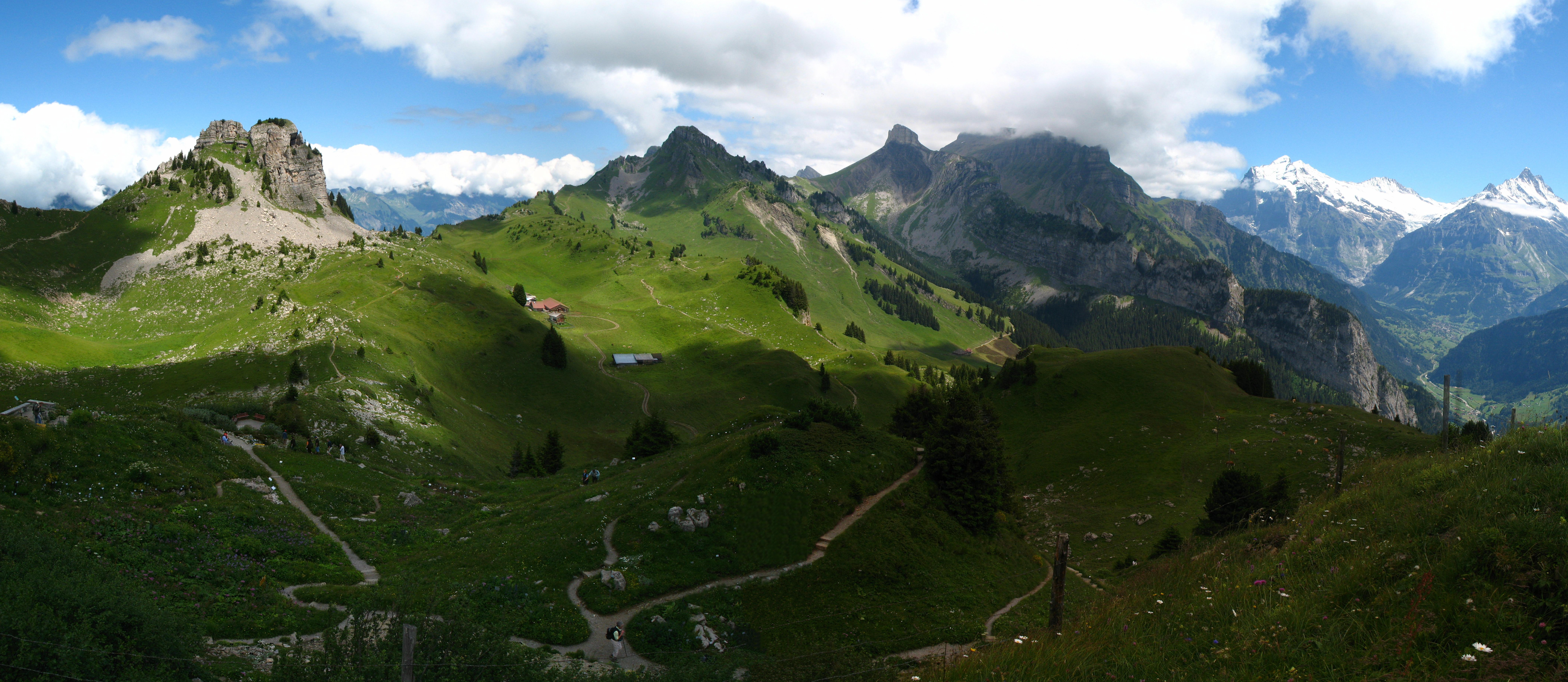 Oberberghorn, Laucherhorn, Faulhorn, Wetterhorn, Mettenberg, Schreckhorn, and the Lütschine Valley viewed from Schynige Platte, Switzerland This panoramic image was created with Autostitch (stitched images may differ from reality).